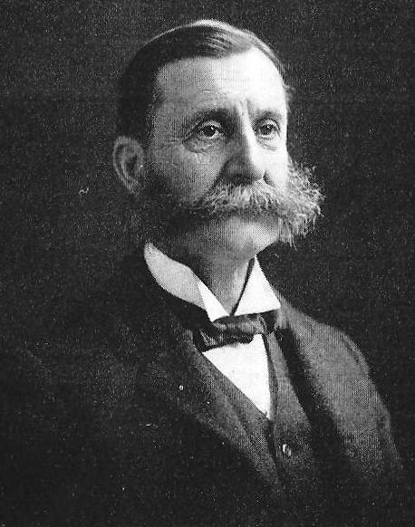 Photograph of Charles Ezra Greene